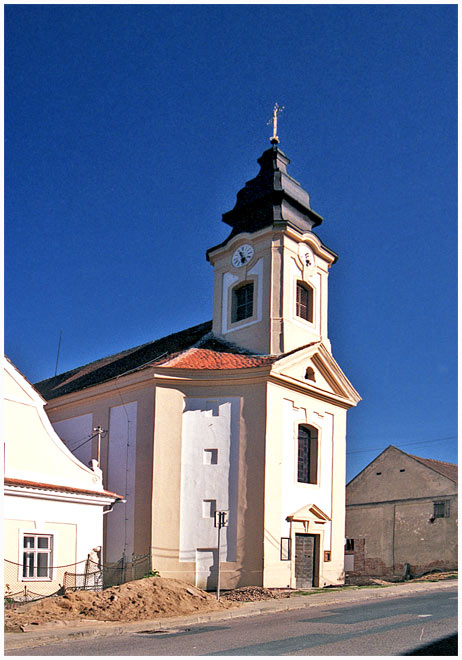 Baroque church of St George in Klentnice, Czech Republic.